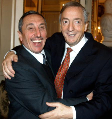 Argentine governor of Santa Fe Province, Jorge Obeid, and President Néstor Kirchner.